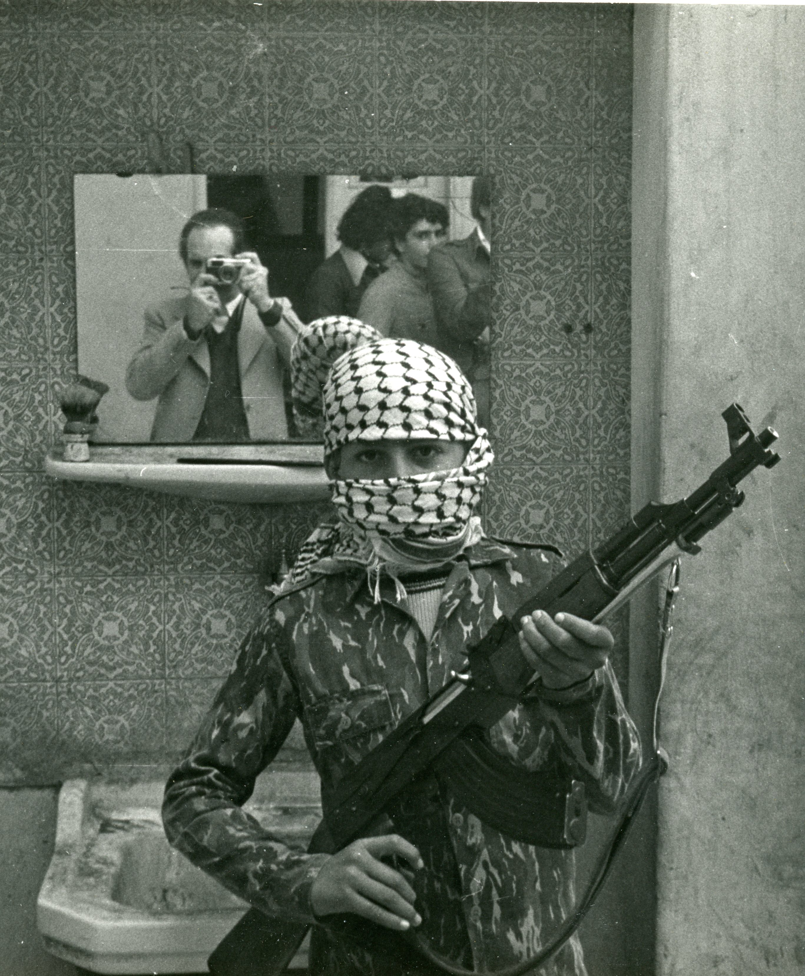 Photograph of Italian Artist Bruno Caruso photographing a guerilla fighter holding an AK-47 machine gun.